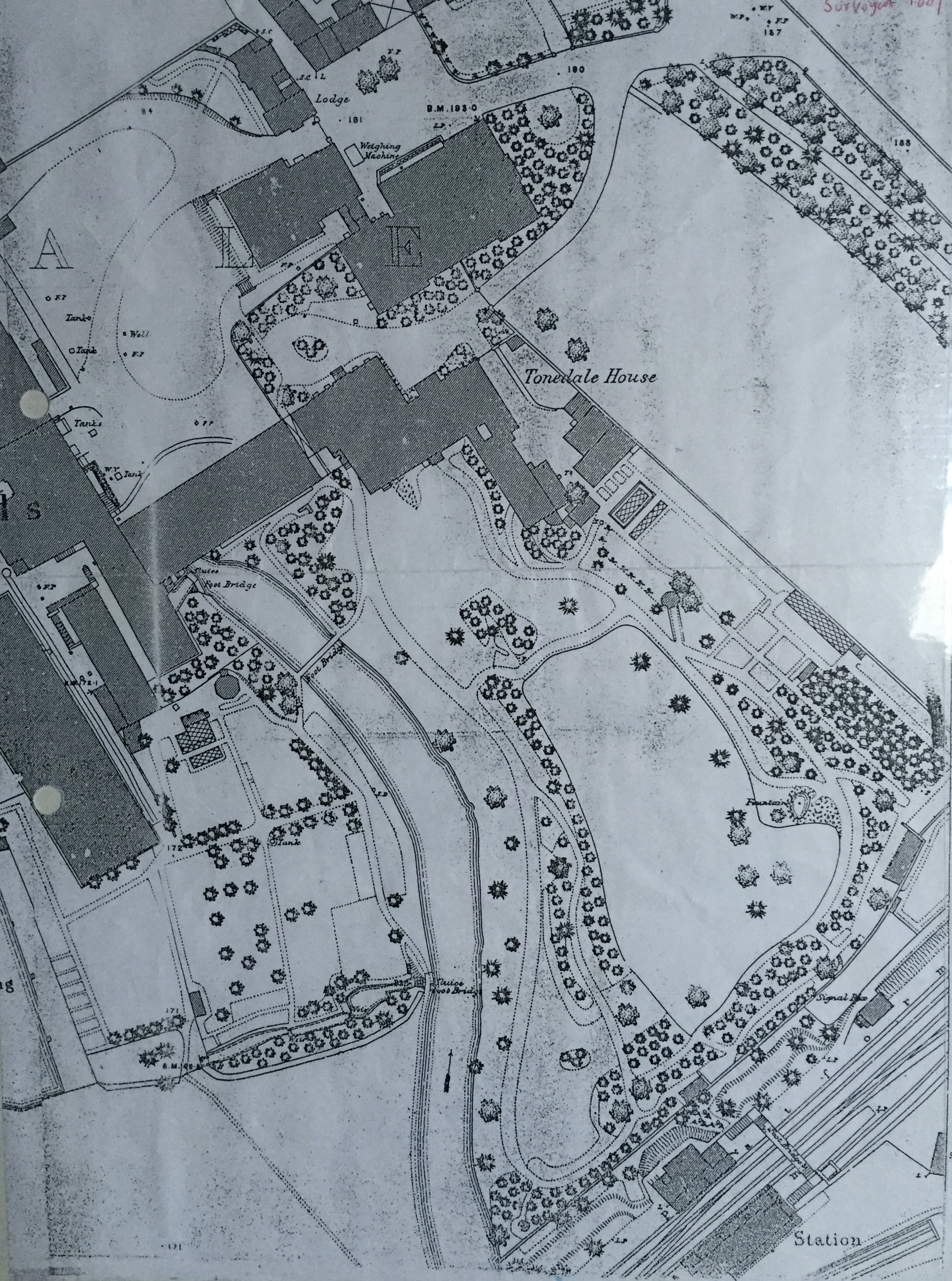 Tone Dale House 1887 Plan Scale 1;500